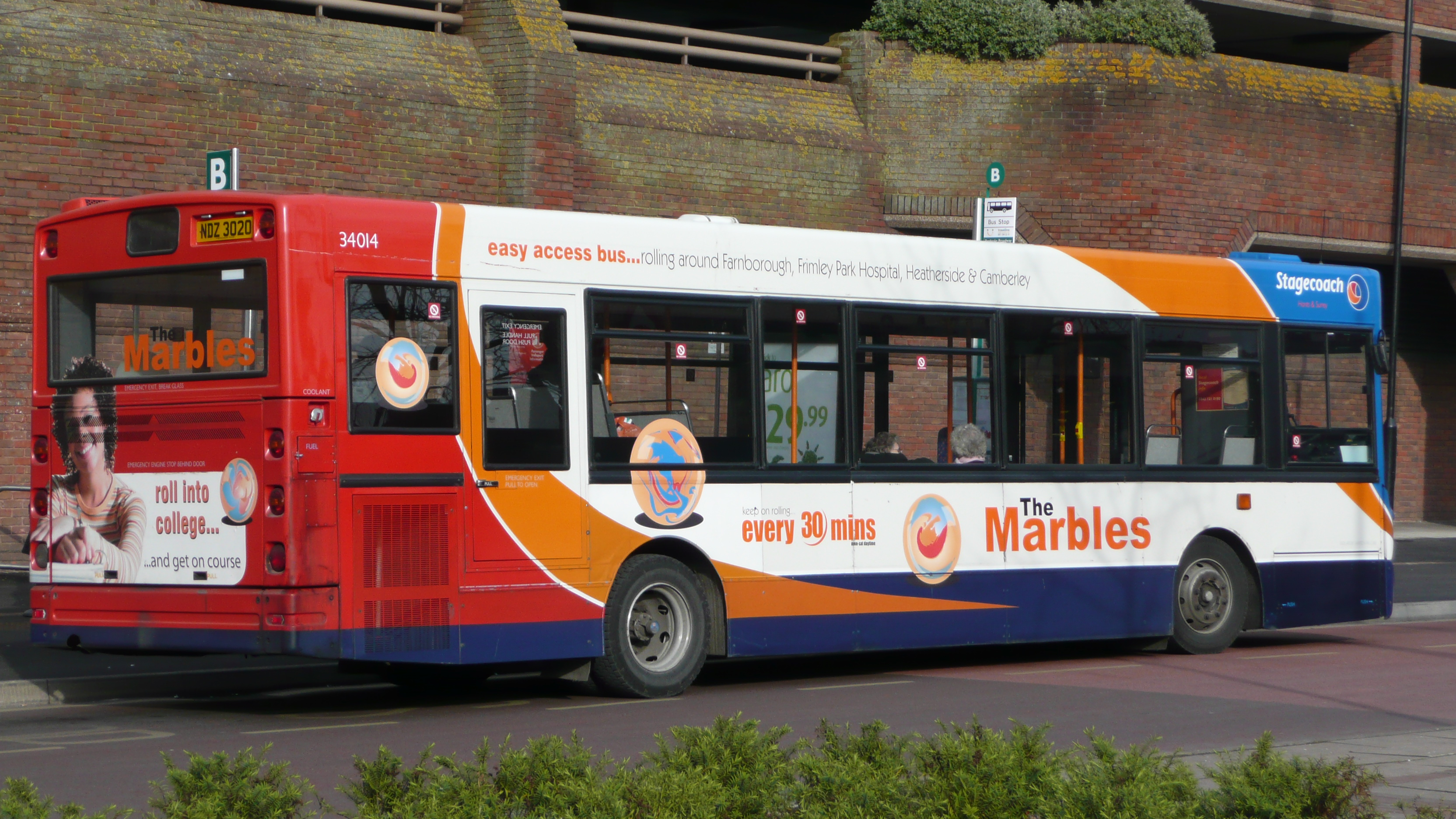 The rear of Stagecoach in Hants & Surrey's 34014 (NDZ 3020, ex-R114 VPU), a Dennis Dart/Alexander ALX200, in Camberley on route 2.